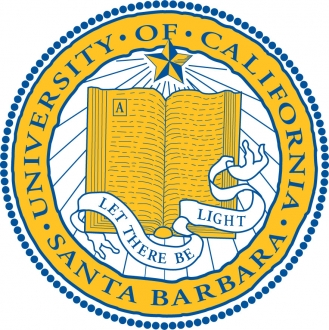 Logo of UCSB